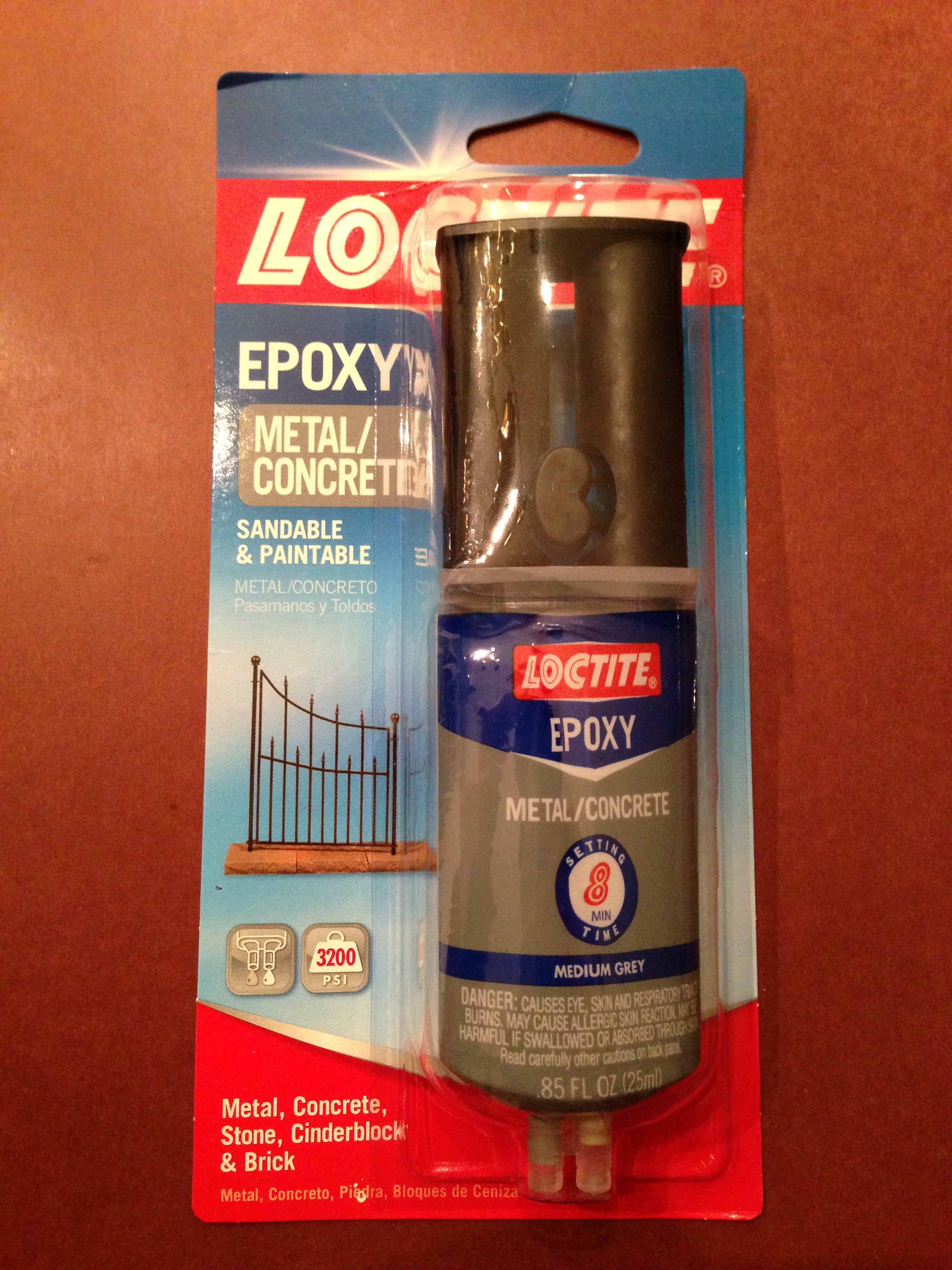 LOCTITE Epoxy